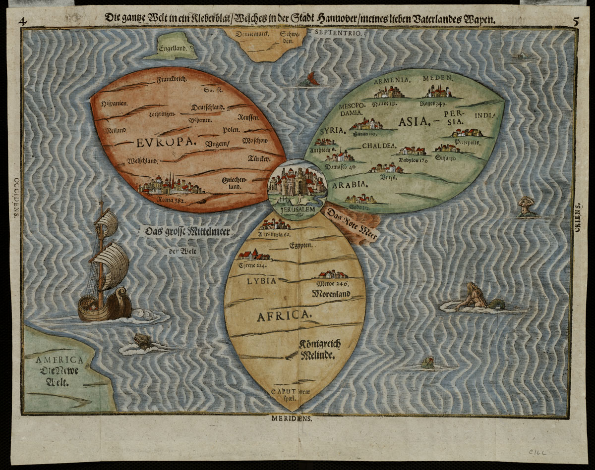 Zoom into this map at . Author: Bèunting, Heinrich Publisher: [s.n.] Date: 1581. Scale: Scale not given. Call Number: G3200 1581.B8 Depicting the world as a cloverleaf, this cartographic curiosity reflects the traditional Medieval world view of three continents. Since it was published in the late-16th century long after the New World discoveries had gained wide acceptance, its primary appeal would have been to readers who cherished the past. It was one of several whimsical diagrams included in a book, which was essentially the Bible rewritten as an illustrated travel book. The author, a professor of theology in Hannover, used the trefoil or cloverleaf arms of his native city to represent the world, making this map more a statement of civic pride than a serious attempt at cartography. Each of the three leaves represents one of the continents -- Asia, Europe, and Africa. At the intersection of the leaves, Jerusalem is clearly marked. In recognition of the New World discoveries, America is shown almost as an afterthought in the lower left hand corner.